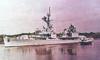 BAE President Eloy Alfaro